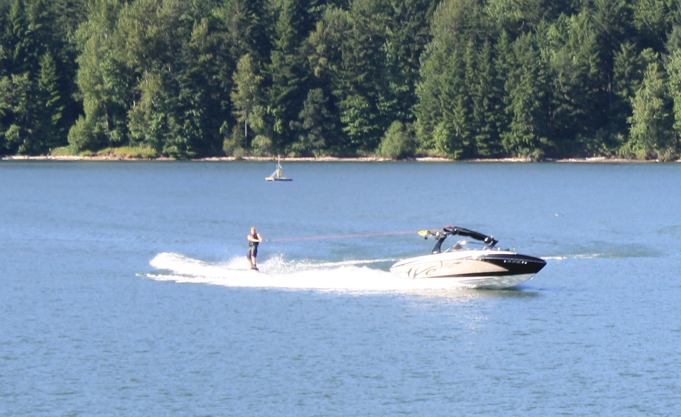 Water skiing at Foster Reservoir near Sweet Home, Oregon